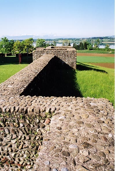 Remains of an old Roman fort near Pfäffikon in Switzerland.